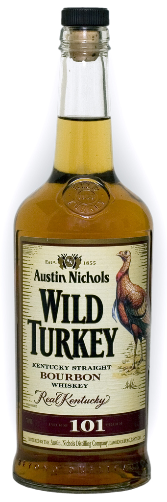 Wild Turkey 101 (101 proof bourbon whiskey) バーボンの一種、ワイルドターキー